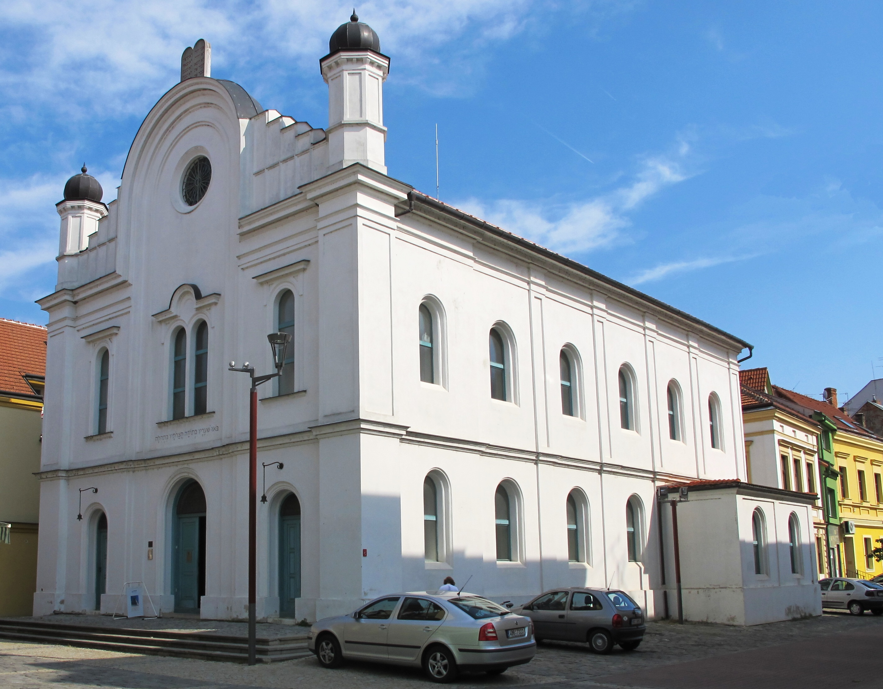 Former synagogue in now completely reconstructed and it is used for cultural and social purposes